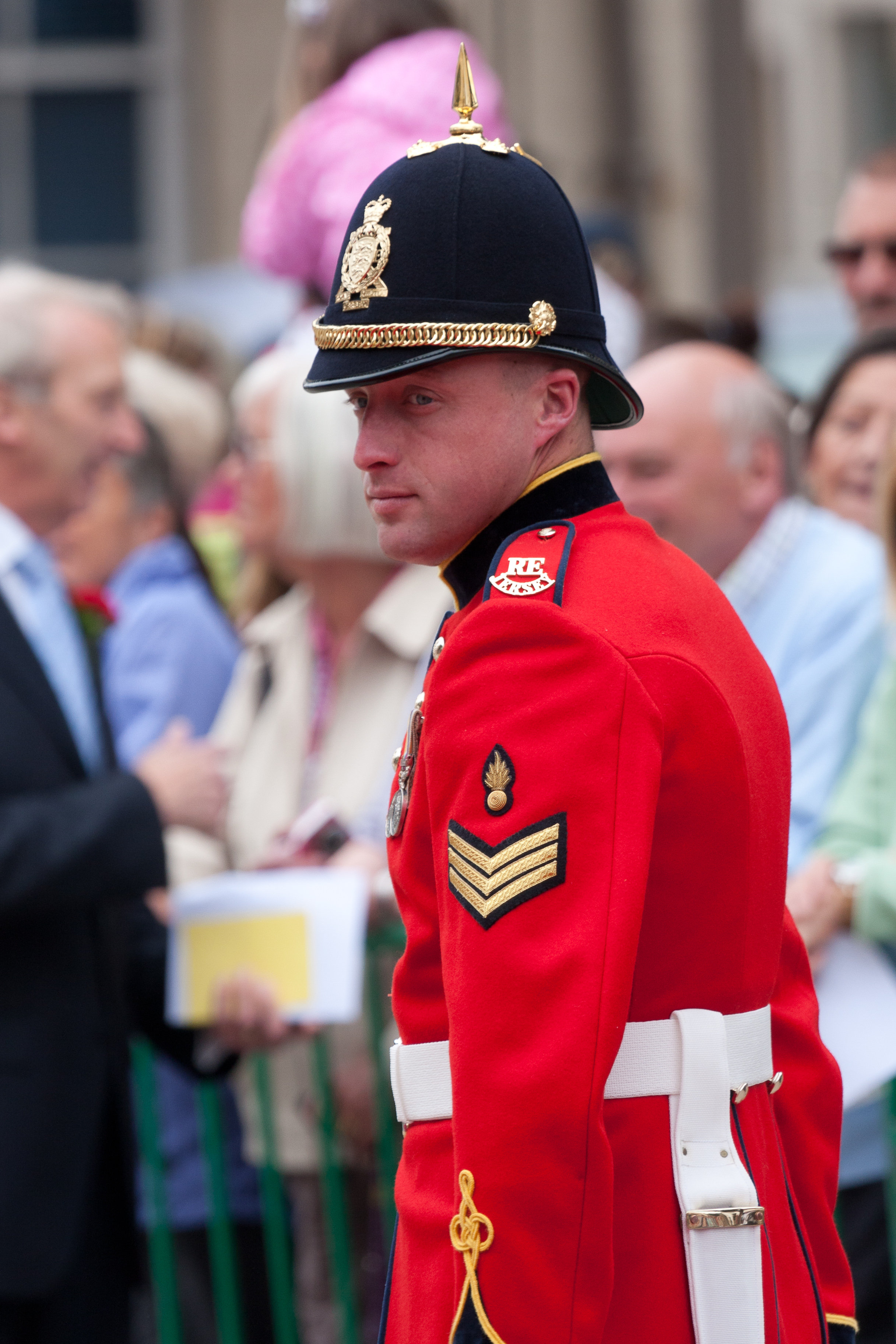 Royal Visit 2012, Jersey, Channel Islands.